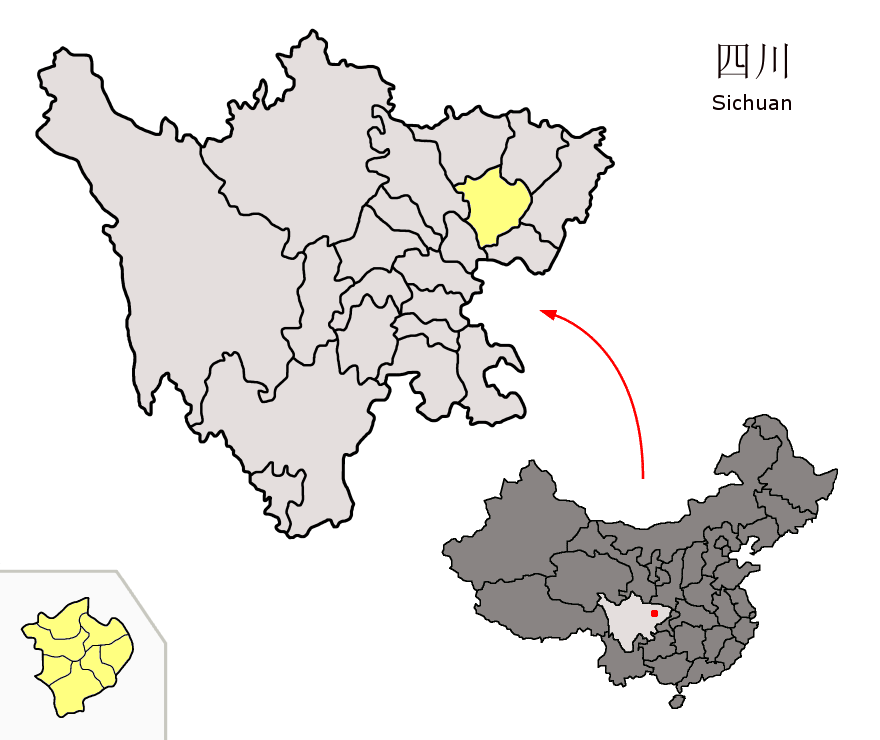 Location of Nanchong Prefecture (yellow) within Sichuan province of China Map drawn in october 2007 using various sources, mainly : Sichuan province administrative regions GIS data: 1:1M, County level, 1990 Sichuan Counties map from